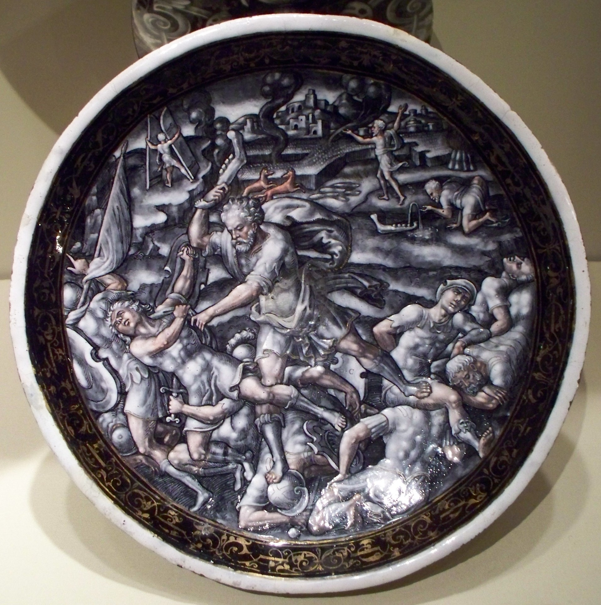 Standing Dish with Samson Crushing the Philistines with the Jawbone of an Ass Pierre Courteys ca. 1580 Enamel on copper, H. 9.8 cm. x Dian. 22.9 cm. (3 7/8 x 9 in.) Taft Museum of Art, Taft collection 1931.299 Wikipedia Loves Art at the Taft Museum of Art This photo of item # 1931.299 at the Taft Museum of Art was contributed under the team name "Opal_Art_Seekers_4" as part of the Wikipedia Loves Art project in February 2009. Taft Museum of Art The original photograph on Flickr was taken by Forever Wiser—please add a comment to the original Flickr page whenever a use has been made on Wikipedia or another project. Project galleries on Flickr: this institution, this team